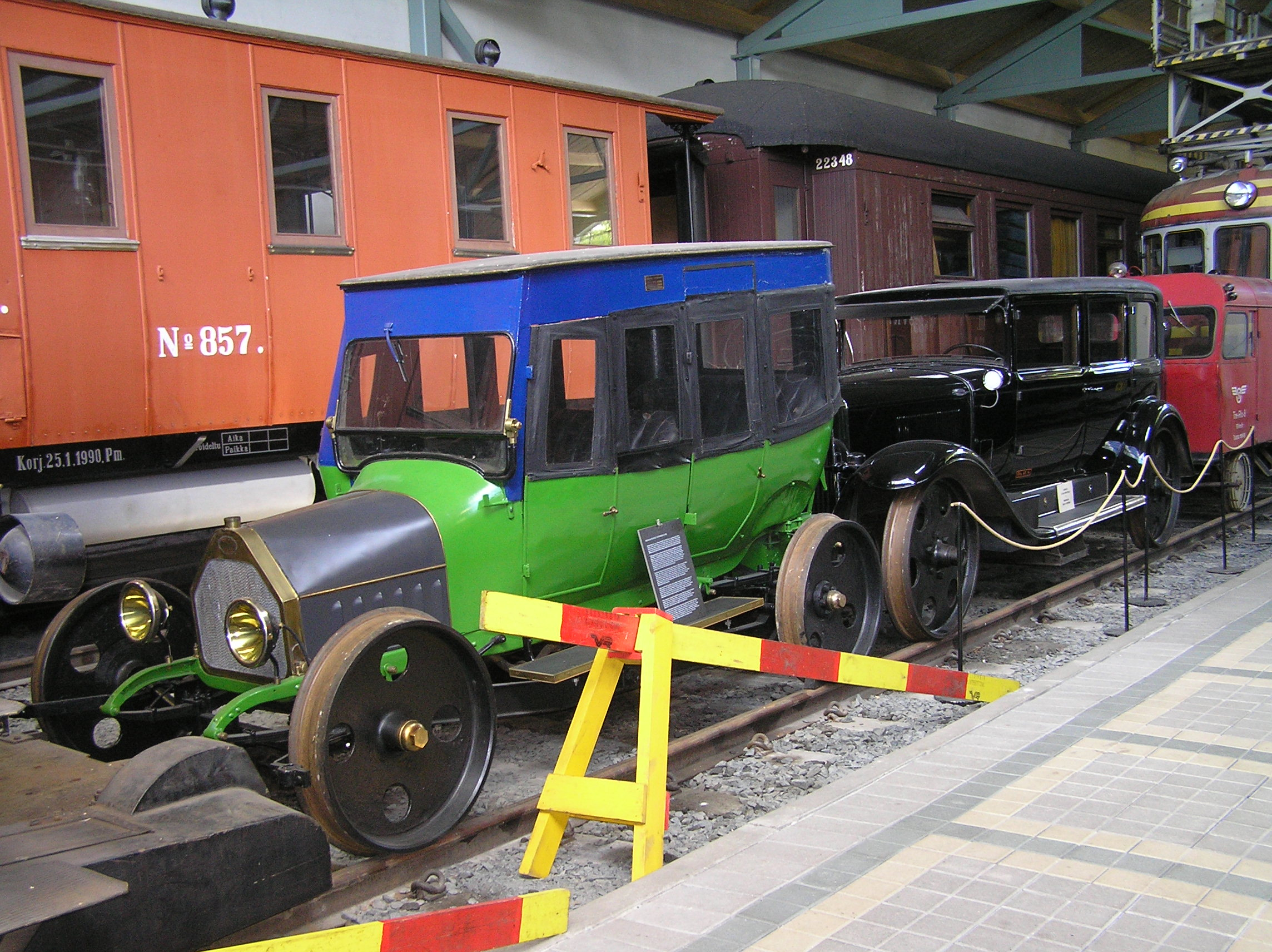 Rail Cars at Finnish Railway Museum, Hyvinkää